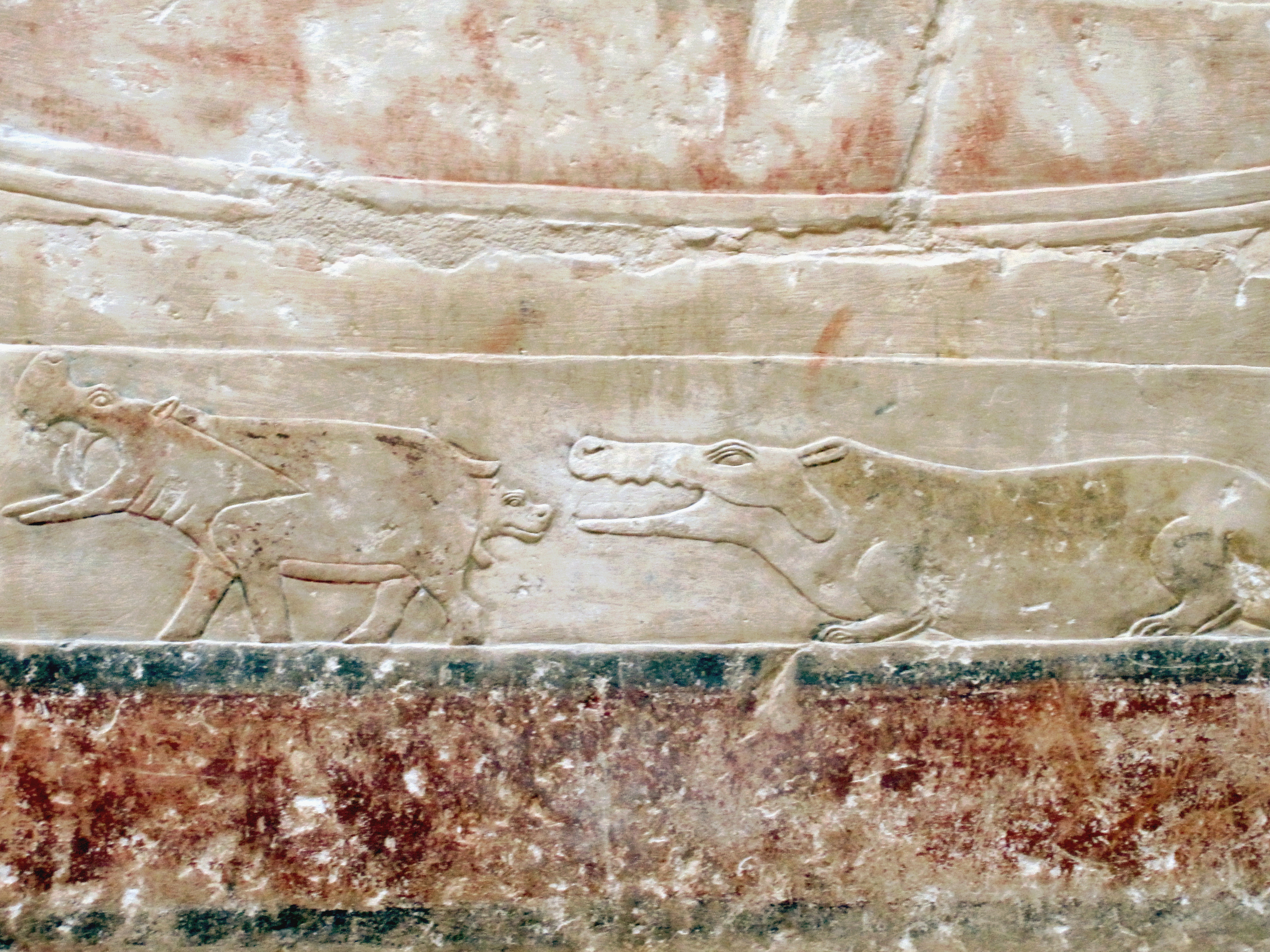 Scene from the mastaba (tomb) of Princess Idut, daughter of Pharaoh Unas from the Fifth dynasty. The scene shows a female hippopotamus giving birth while a crocodile prepares itself to eat the terrified baby hippo by opening its jaws. The scene is intended to illustrate the wedded symbolism of birth and death. See this map for the mastaba's location in the sector of the Pyramid of Unas, and this map for its location within the broader North Saqqara necropolis.